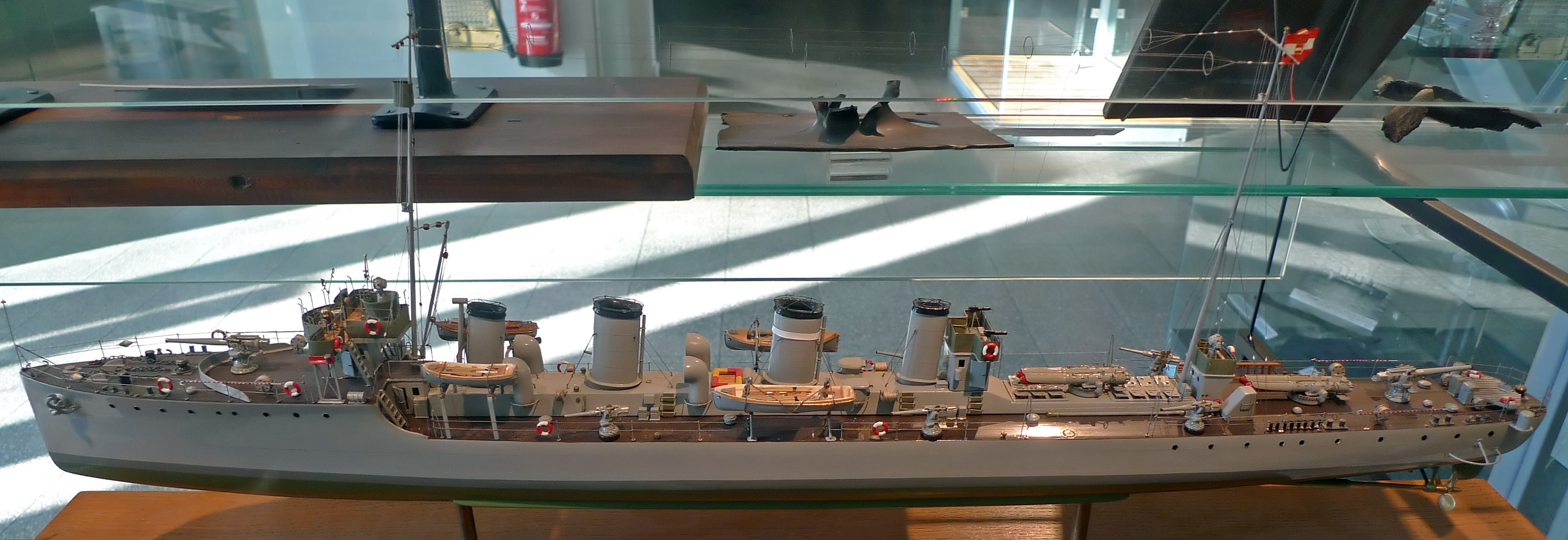 Austro-Hungarian destroyer SMS Tatra (1912), 1:100 scale model at the Heeresgeschichtliches Museum Wien.